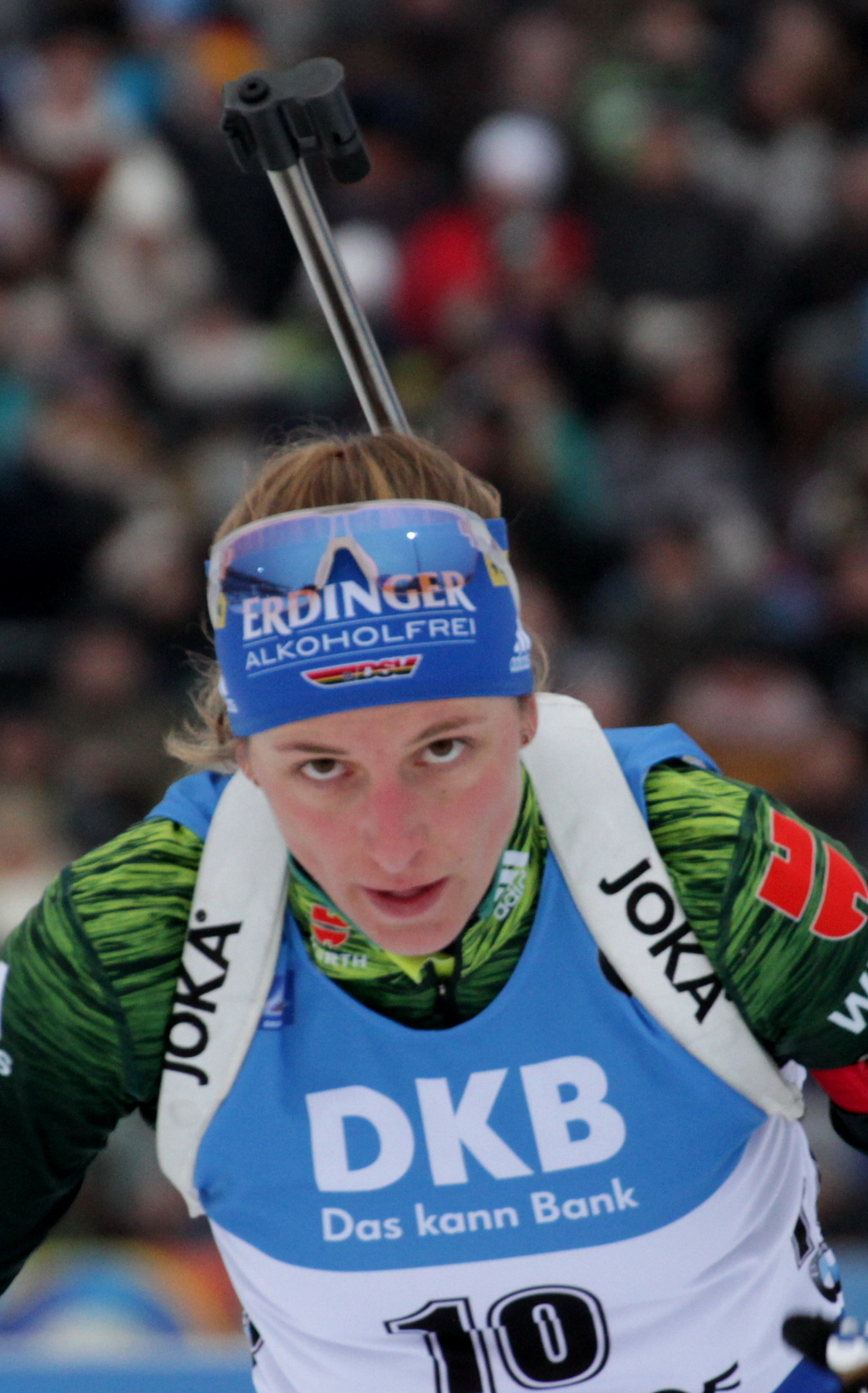 2018 Oberhof Biathlon World Cup - Sprint Women